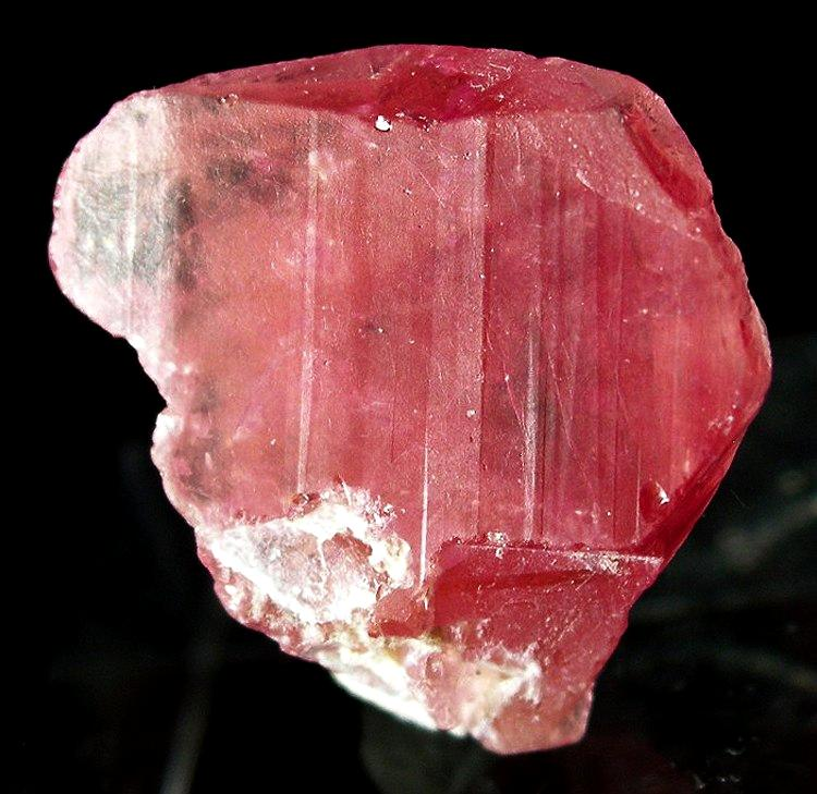 Pezzottaite Locality: Sakavalana mine, Ambatovita, Mandrosonoro area, Ambatofinandrahana District, Ampandramaika-Malakialina Pegmatite Field, Amoron'i Mania Region, Fianarantsoa Province, Madagascar (Locality at ) Size: 1.8 x 1.7 x 0.6 cm. A gorgeous, vivid pink, gemmy and euhedral pezzottaite crystal. The crystal has textbook tabular, hexagonal crystal form. Pezzottaite is the very rare cesium analogue of beryl, first discovered in 2002. These caused a lot of excitement when they came out and were at first, called raspberry beryl.